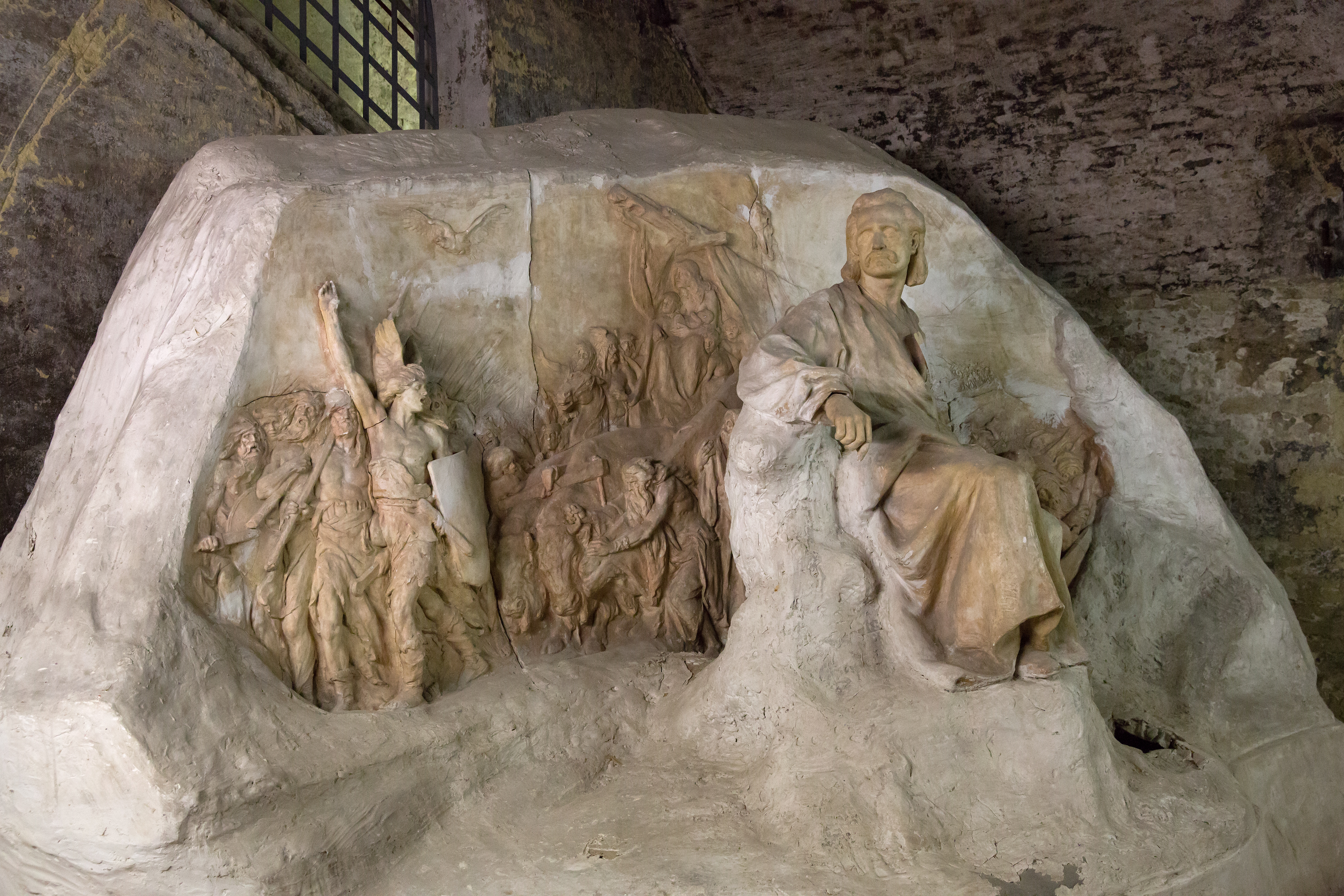 Models made of gypsum of statues, reliefs etc. from the time of Historicism and Art Nouveau (late 19th and early 20th century) for buildings at Ringstraße in Vienna, Austria, stored in the former wine cellar of Hofburg Palace (Leopold Wing). Dieses Bild wurde anlässlich des österreichischen Tags des Denkmals 2015 in Wien eingereicht.